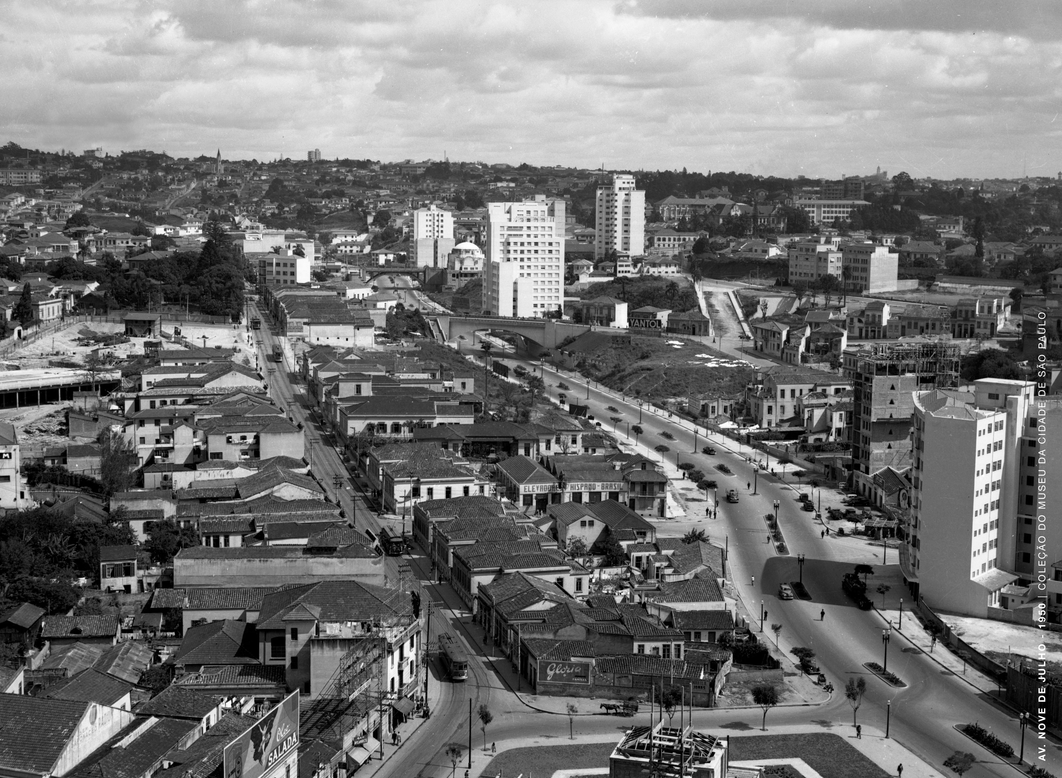 Vista panorâmica da Av. 9 de Julho e Rua Santo Antônio em 1950.